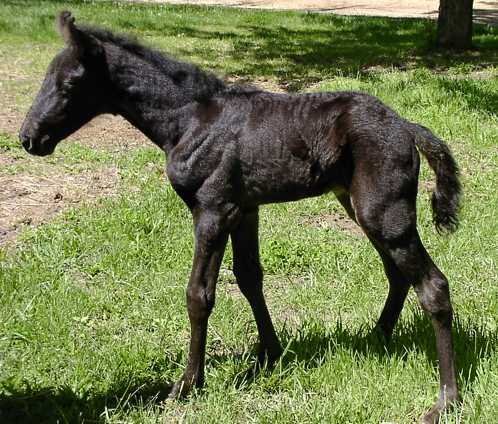 Smokey Black Filly